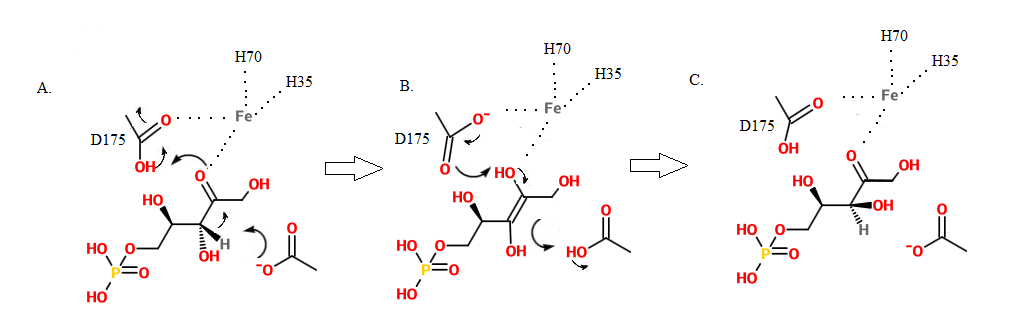 This figure describes the mechanism by which ribulose 5-phosphate is converted to xylulose 5-phosphate. The middle panel indicates the 2,3-trans-enediolate intermediate.